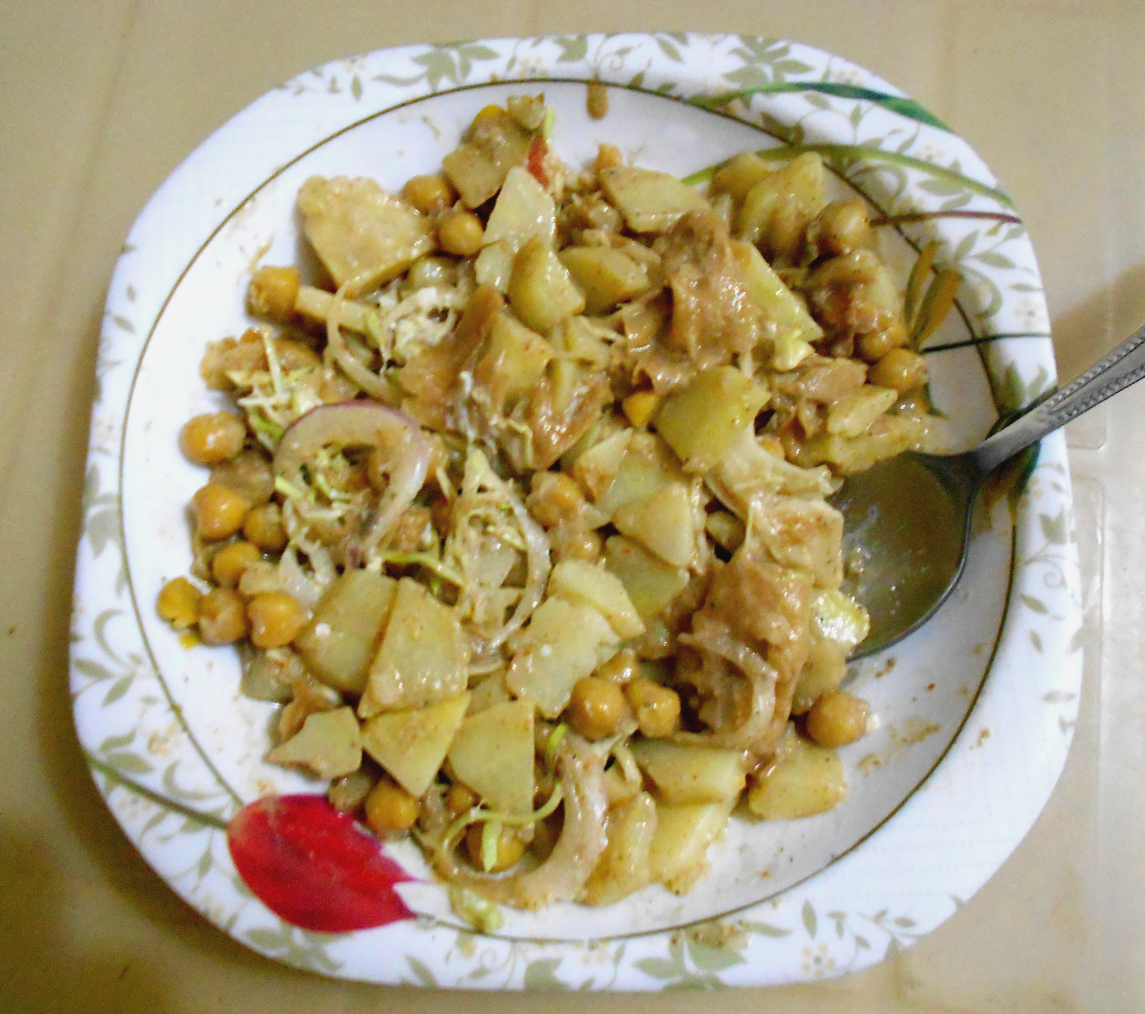 Aloo Chaat in plate